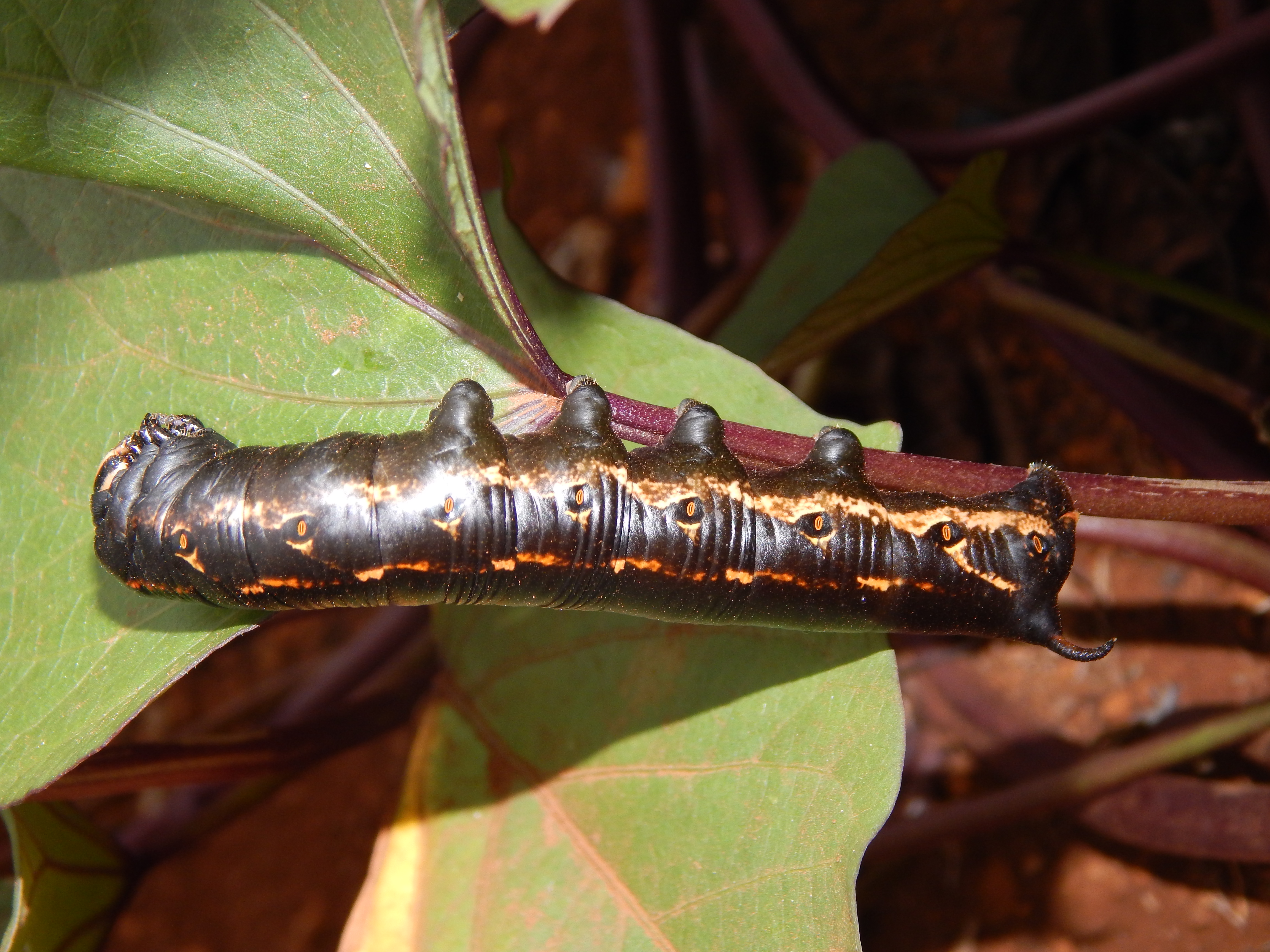 Ipomoea batatas (Sweet potato) Leaves with sweet potato hornworm Agrius cingulata larva at Lua Makika, Kahoolawe, Hawaii. December 17, 2014 #141217-2954 Image Use Policy